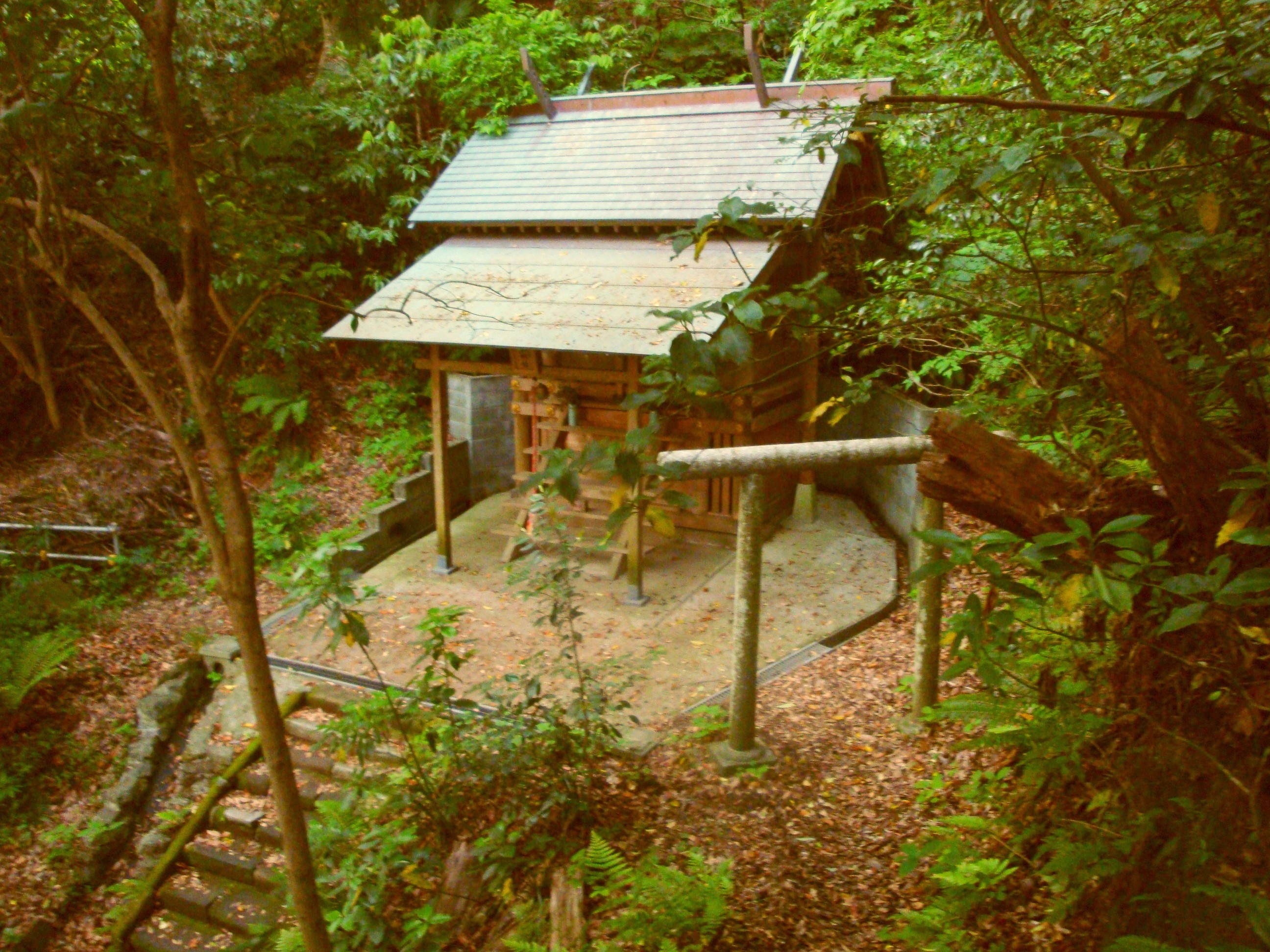 Amanawa Shinmei Jinja Shrine -- the oldest shrine in Kamakura, founded in 710 by Priest Gyoki (668-749) and Tokitada Someya. Main object of worship is Sun Goddess Amaterasu.